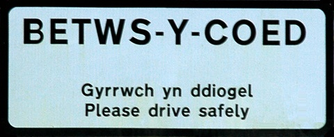 A bilingual Welsh-English road sign.